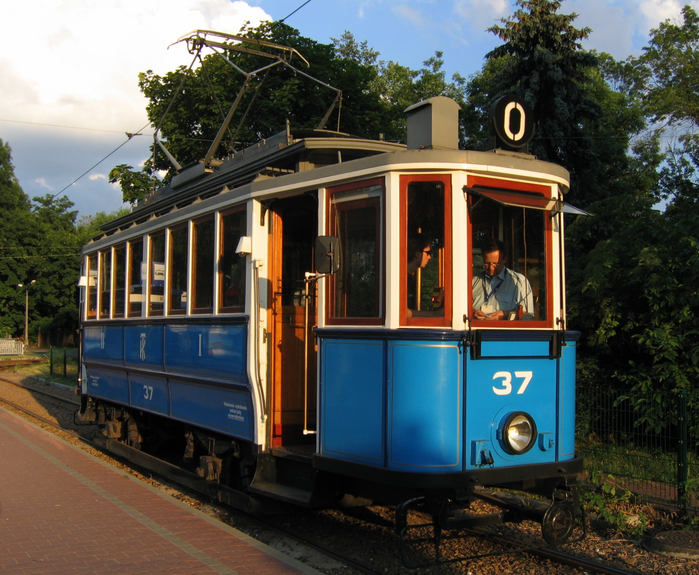 Line 0 museum tram in Cichy Kącik, Kraków.